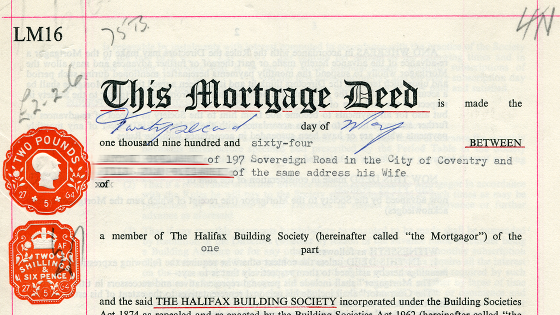 Mortgage deeds of an house showing a £2 (two pounds) and a 2/6 (two shillings and six pence) embossed fiscal stamps.